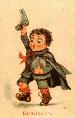 Postcard by Vladimir Taburin